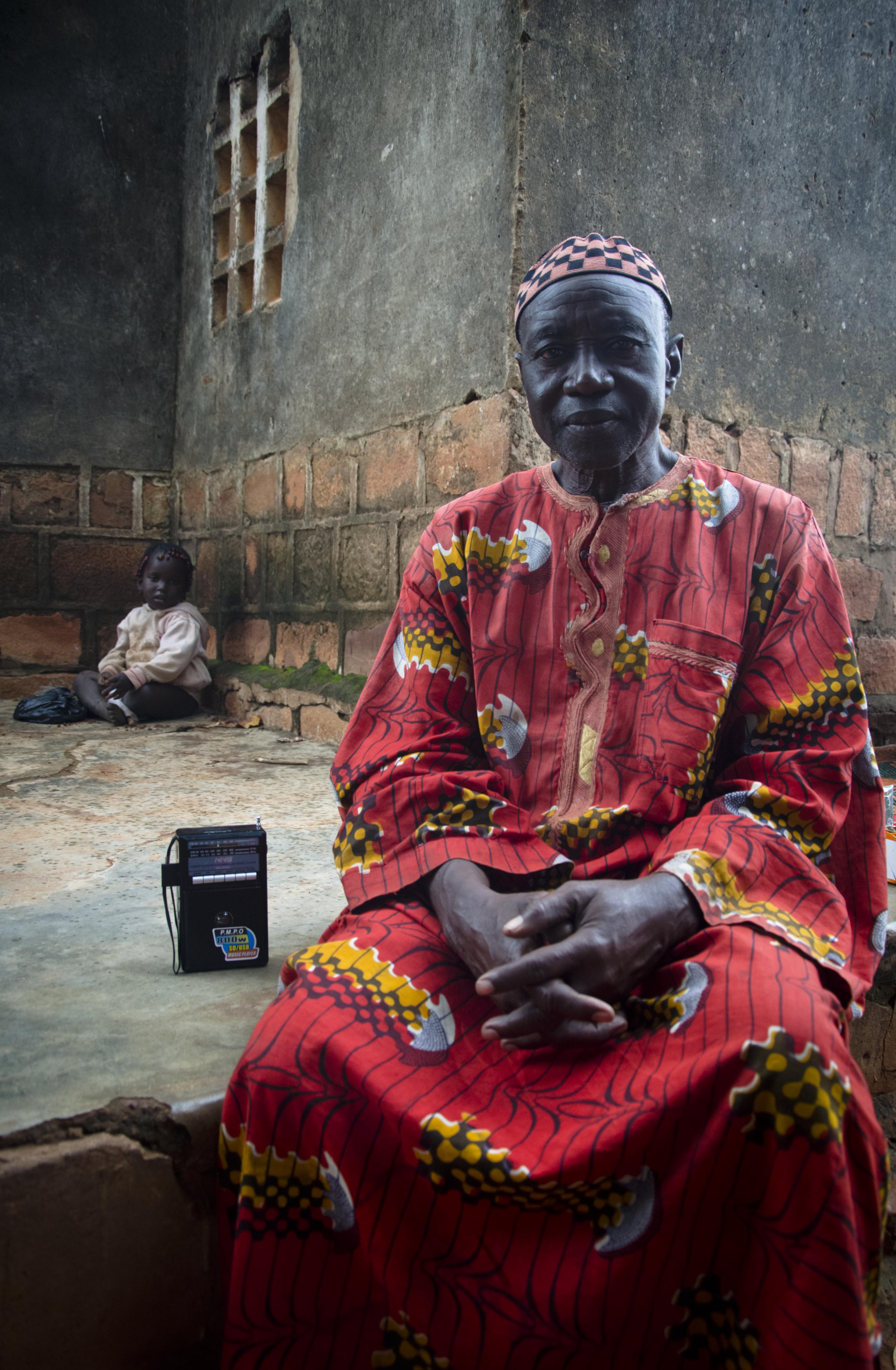 Djula muslim in front of the mosque of Darsalamy, Burkina Faso